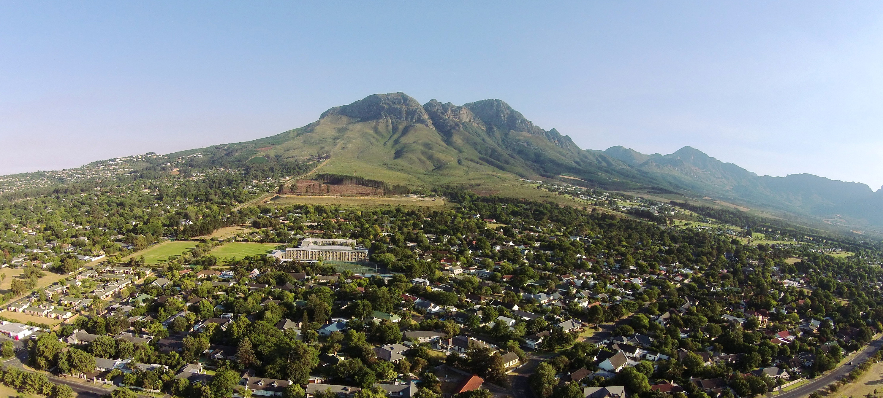 The Helderberg Mountain is part of the Hottentots-Holland mountain range in the Western Cape, South Africa. The Helderberg Nature Reserve is situated on the slopes of the beautiful Helderberg Mountain overlooking the town of Somerset West and False Bay. There are numerous hiking trails on the Helderberg mountain.